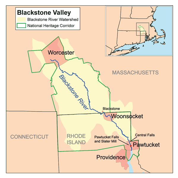 This is a map of the Blackstone Valley. I, Karl Musser, created it based on USGS and Census Bureau data. Additional data was obtained from Rhode Island GIS, copyright RIGIS, used with permission, and from the National Park Service.